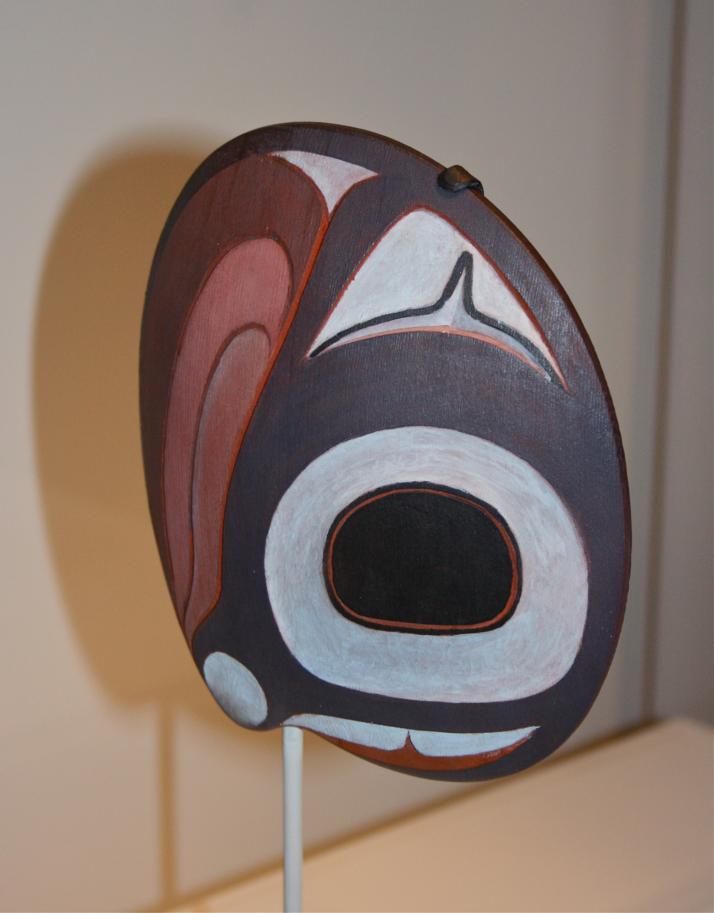 Clam Shell Rattle created by James Schoppert, 1992